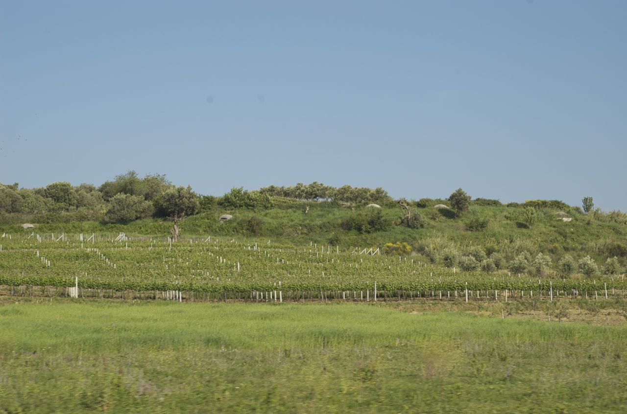 Vinyard and some bunkers in southern Albania